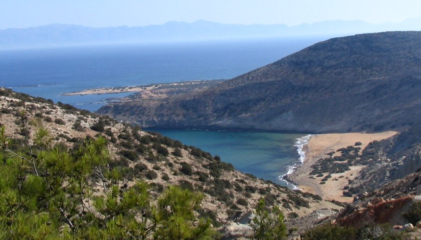 Shot by myself. Summer 2005 You can see Crete in the background